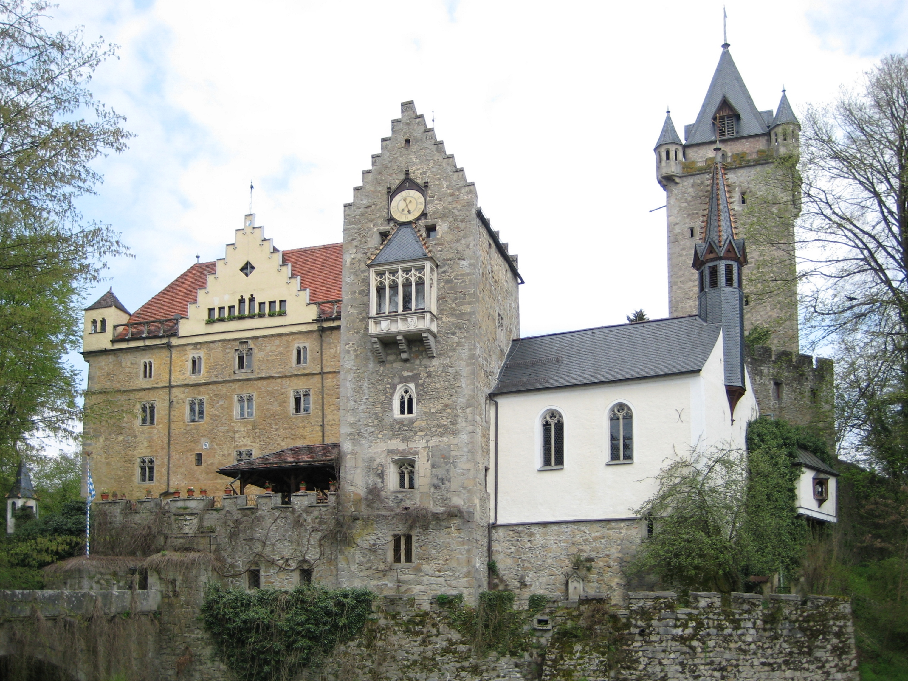 Castle Egg, district of Deggendorf, Lower Bavaria